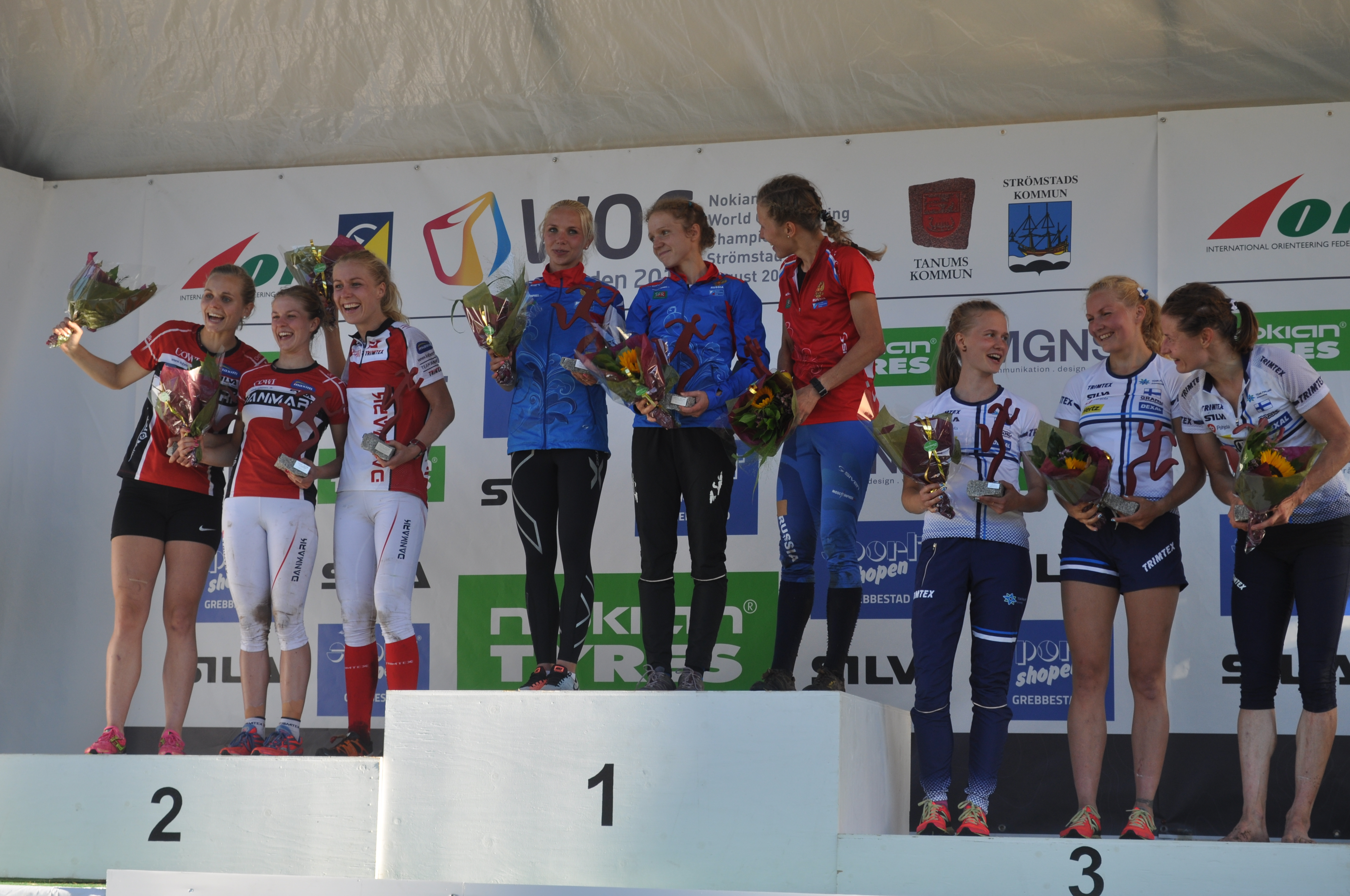 WOC 2016 Relay flower ceremony.